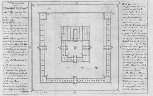 Newton, Isaac, Sir, 1642-1727 The chronology of ancient kingdoms, amended : To which is prefix'd, a short chronicle from the first memory of things in Europe, to the conquest of Persia by Alexander the Great / by Sir Isaac Newton. London : Printed for J. Tonson, J. Osborn and T. Longman, 1728.